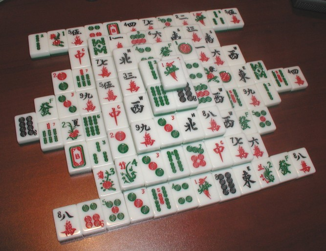 A Shanghai solitaire using Mah Jong tiles, set into the "Dragon formation". Photographed on May 08, 2005.